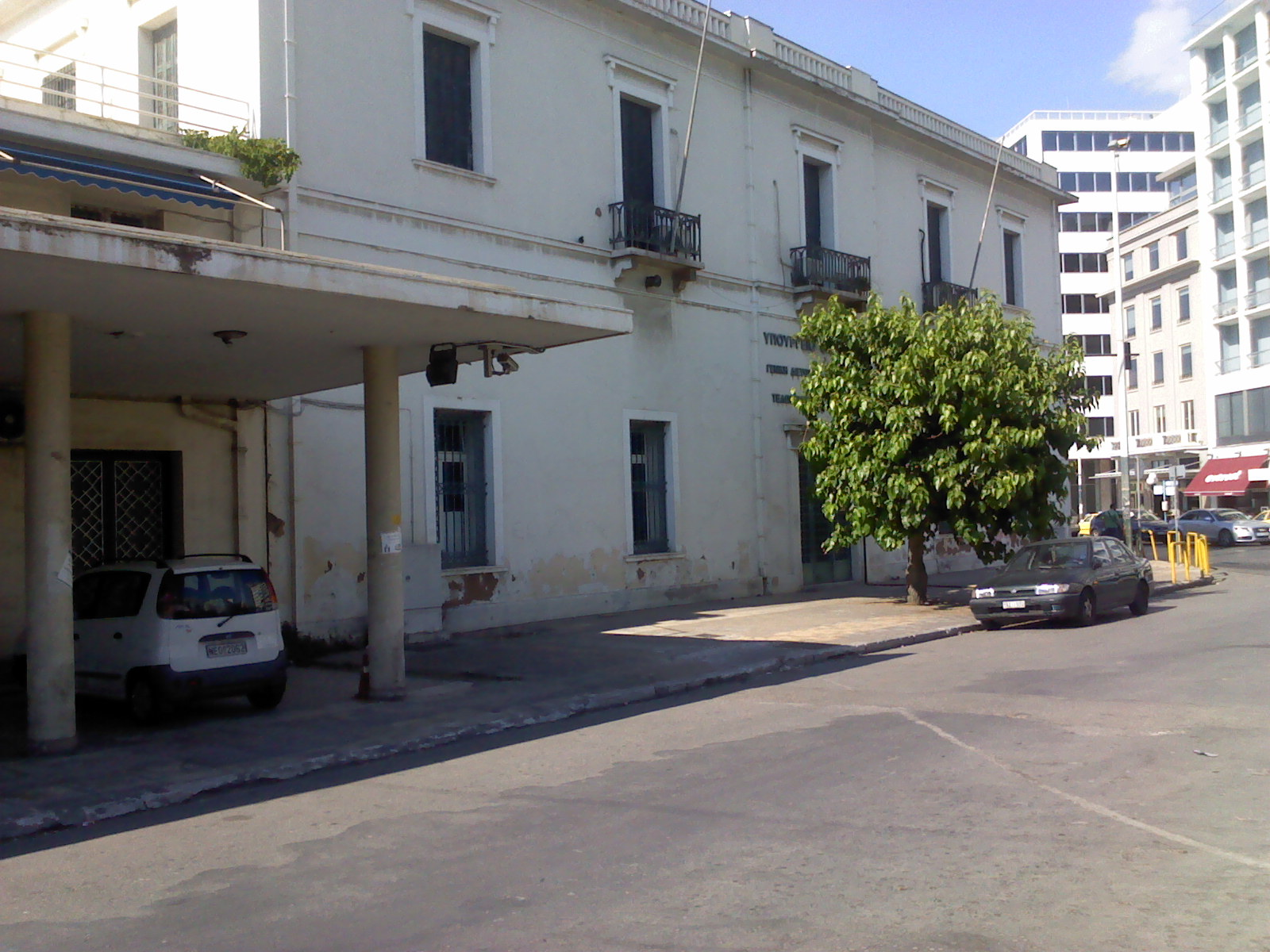 Teloneio Piraia